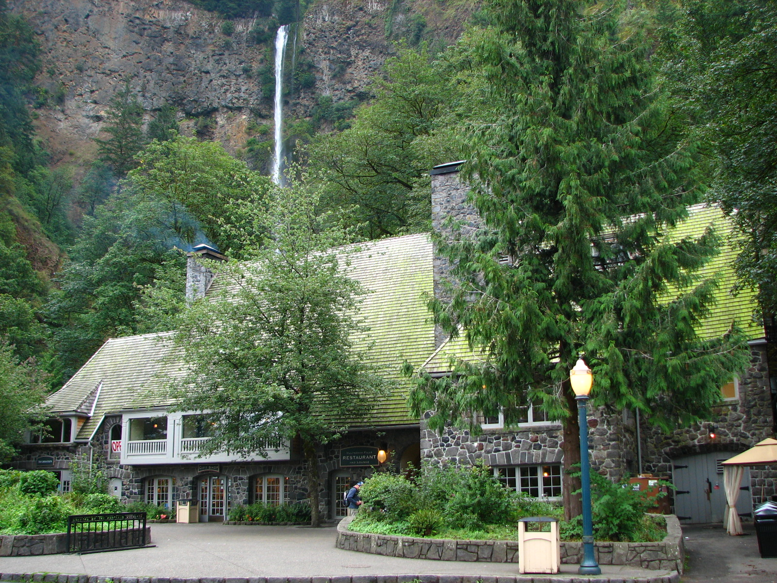 The Multnomah Falls Lodge (completed 1925) in Multnomah County, Oregon, United States, is listed on the US National Register of Historic Places along with its associated footpath.